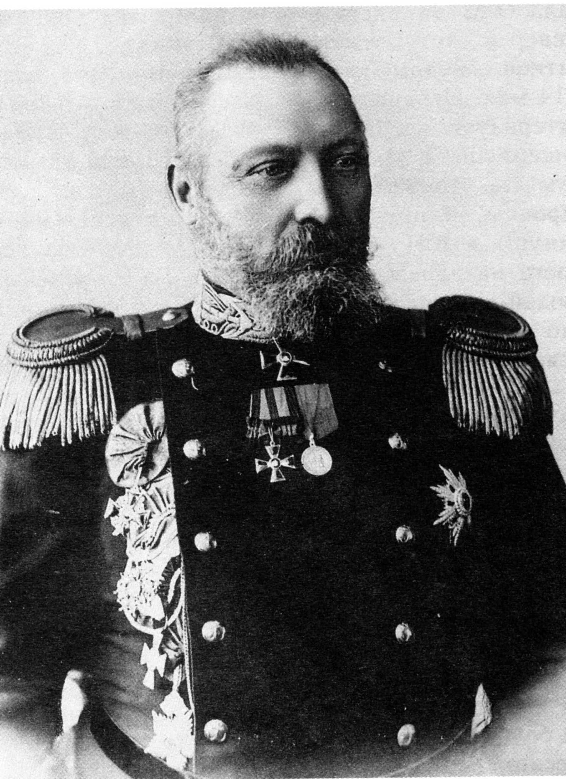 fon Fittingof, Bruno Aleksandrovich